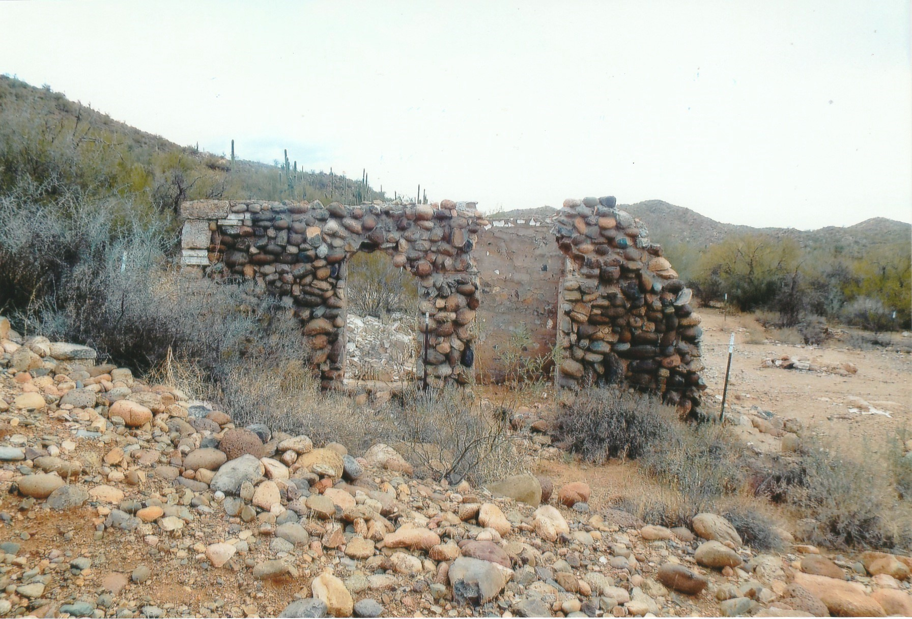 The ruins of the 1878 Burfind, Hotel in the ghost town Gillett in Arizona.